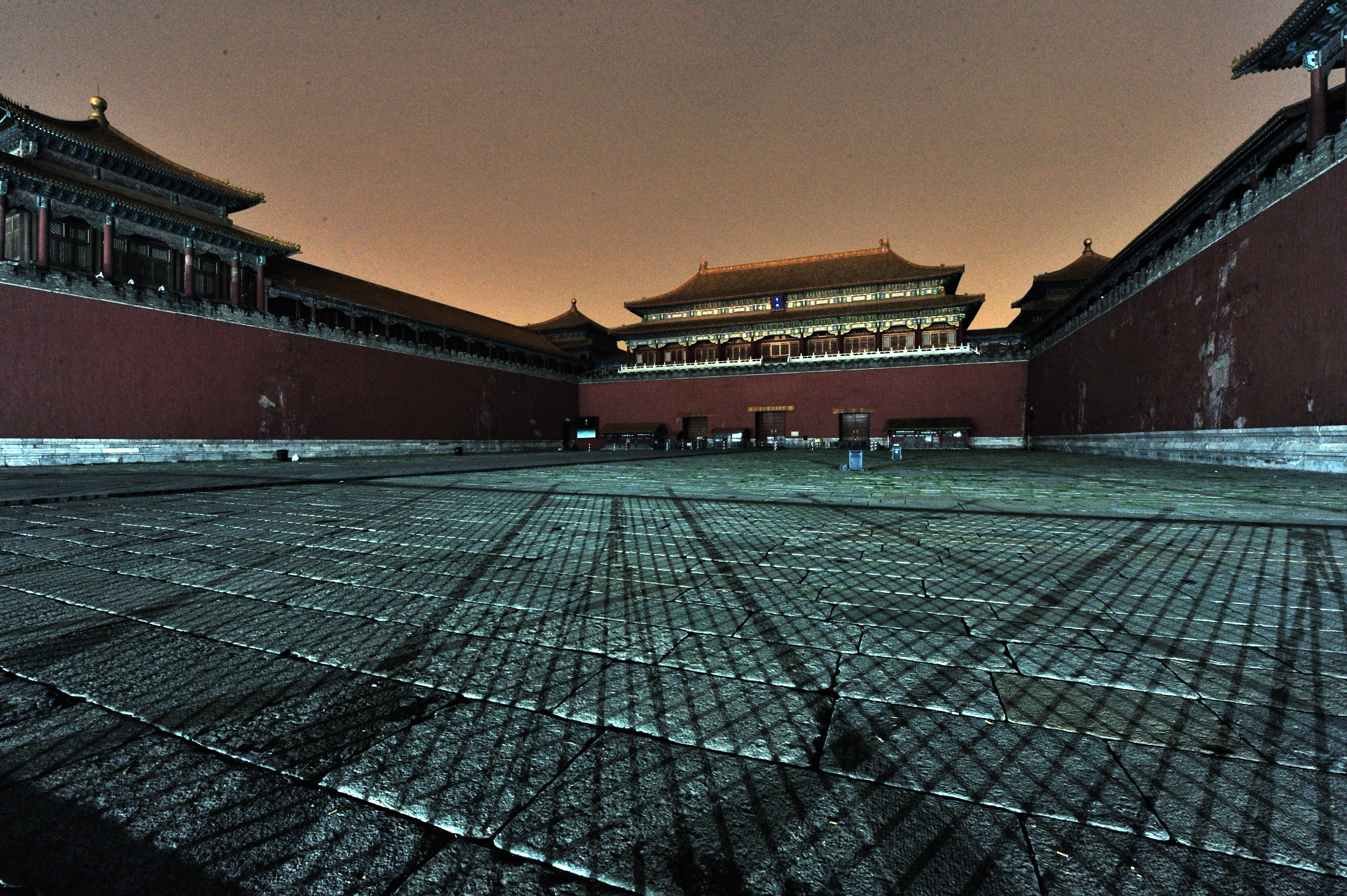 Beijing - Forbidden City(view N) - Meridian Gate at night